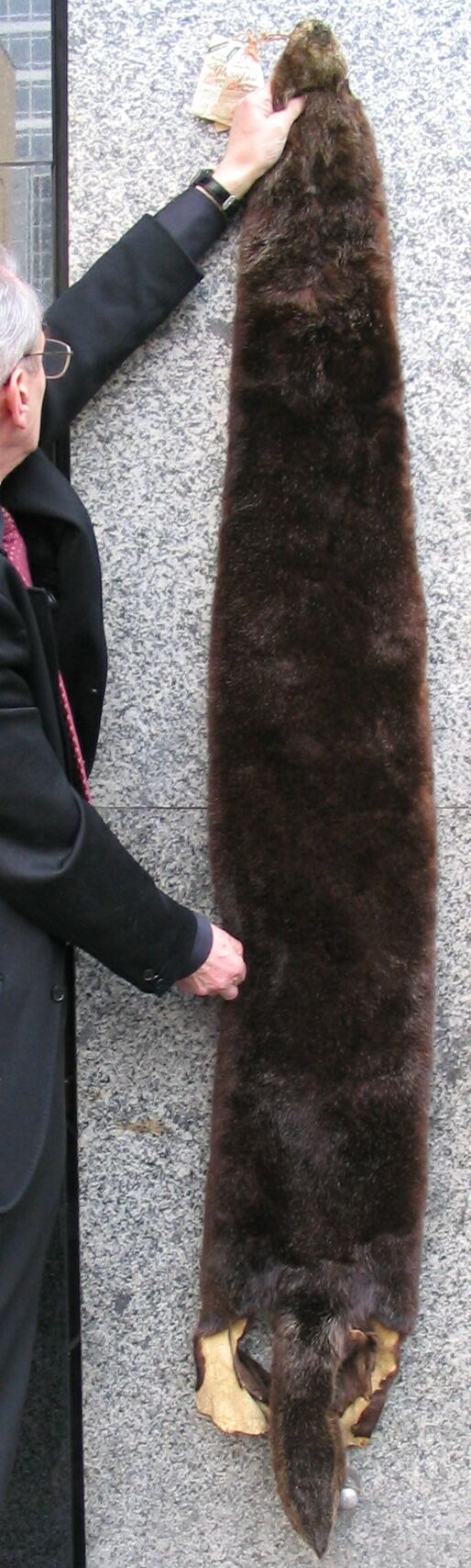 Sea otter skin, backside